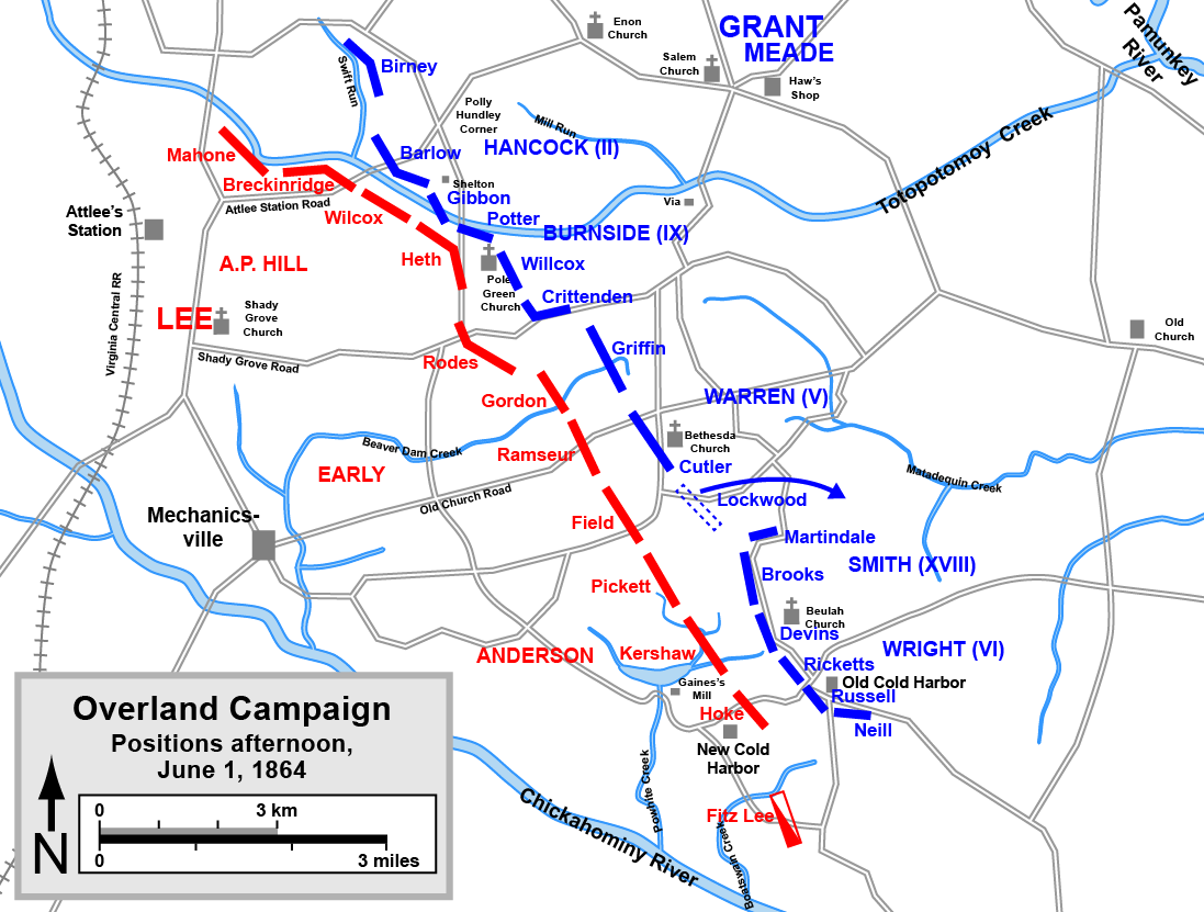 Map of the Overland Campaign of the American Civil War, drawn in Adobe Illustrator CS5 by Hal Jespersen. Graphic source file is available at